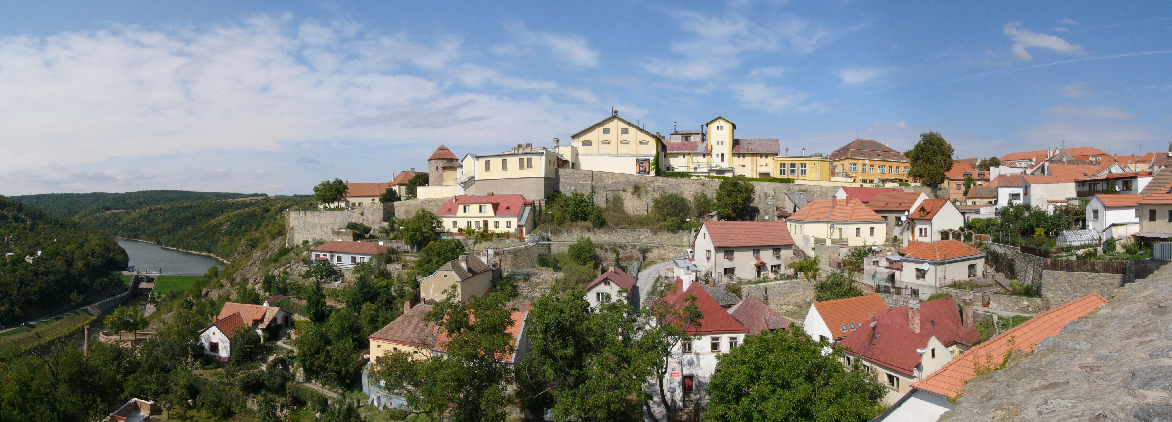 panoramic image of Znojmo city: water reservoir Znojmo, Znojmo castle with rotunda of Saint Catherine, Pivovar Hostan brevery